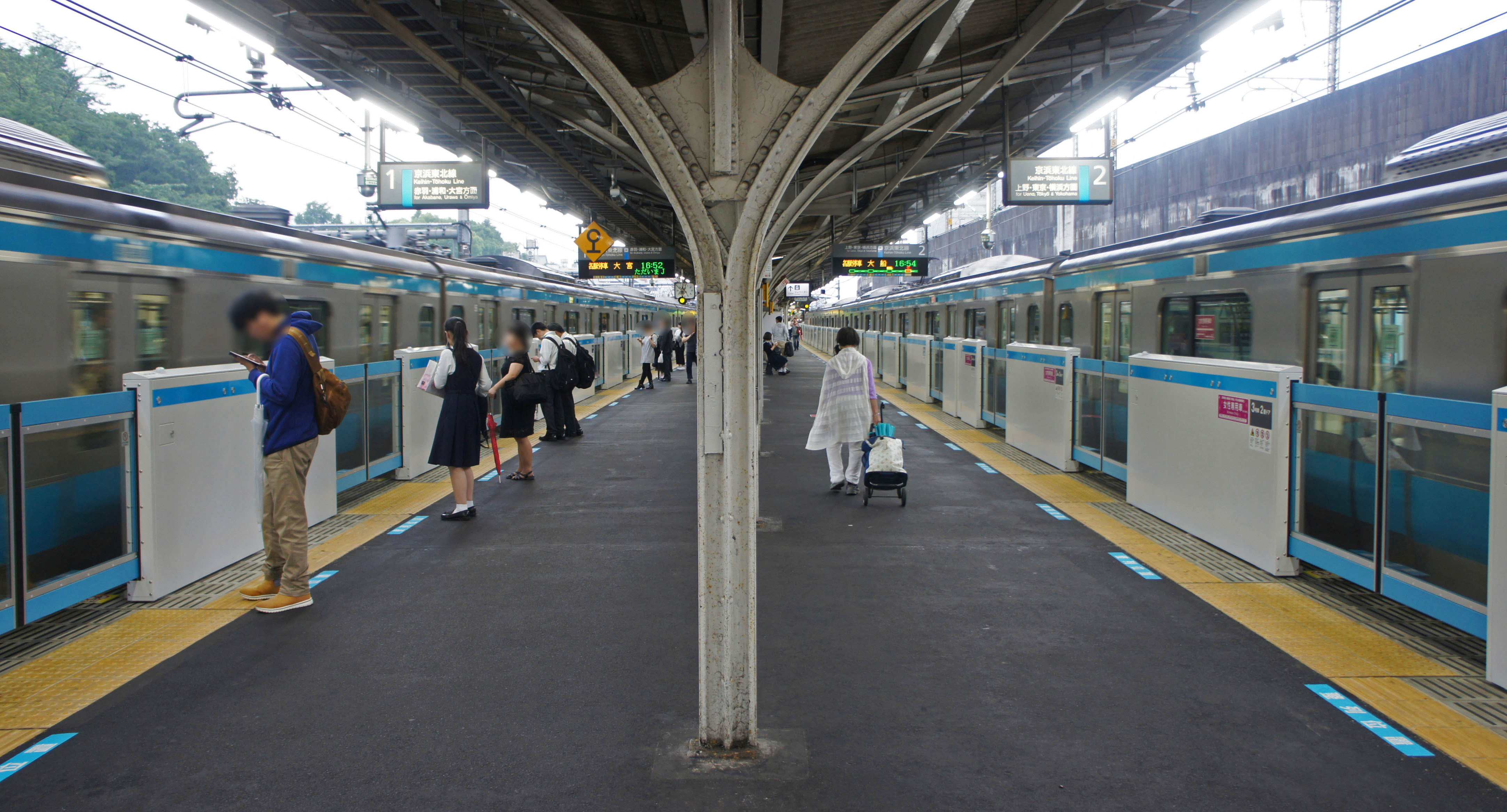 Platform of JR Oji Station Sony NEX-3 + E 18-55mm F3.5-5.6 OSS